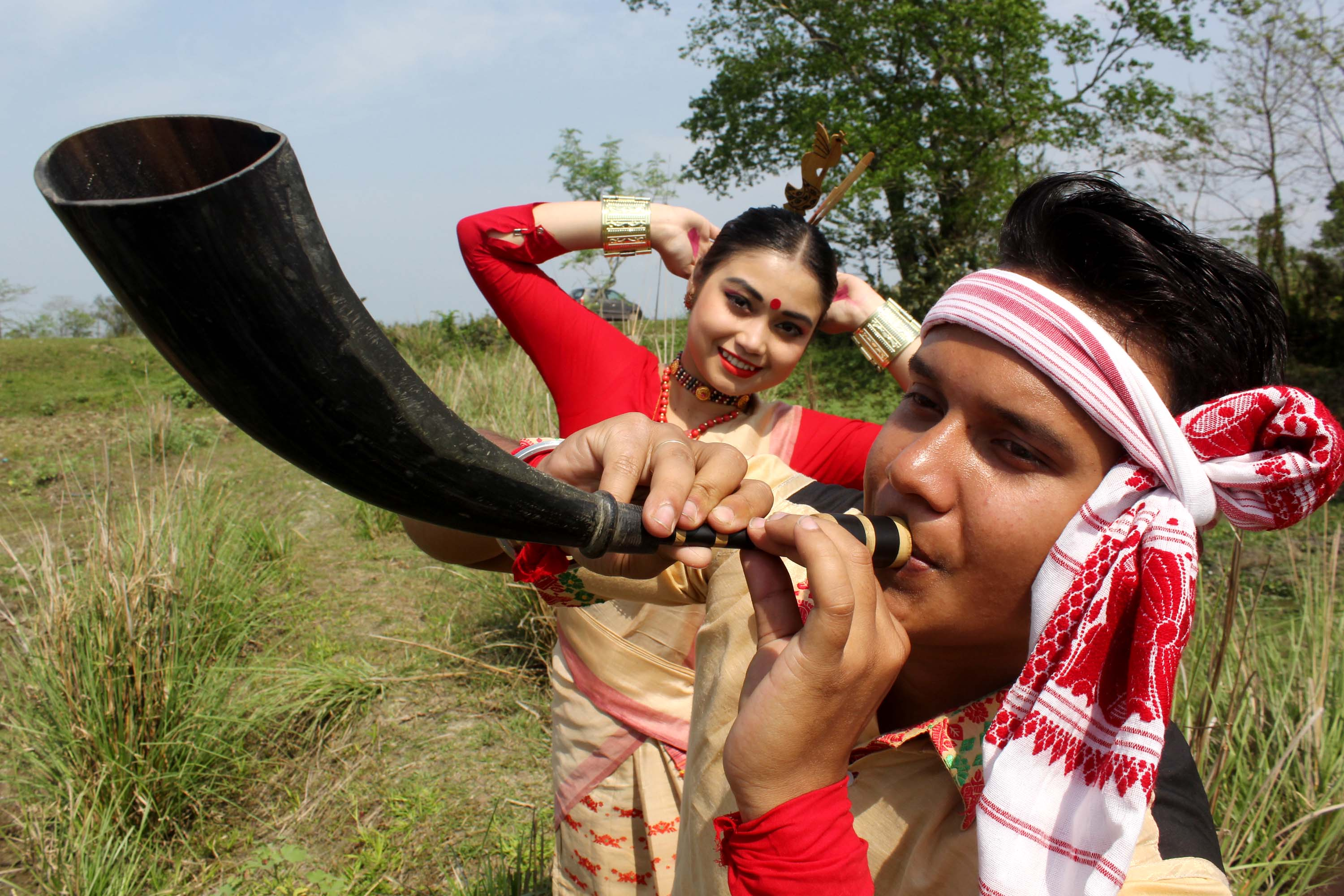 Youths perform the Bihu danceon the ocassion of Rongali Bihu festival at Diphalu village in Nagaon district of Assam